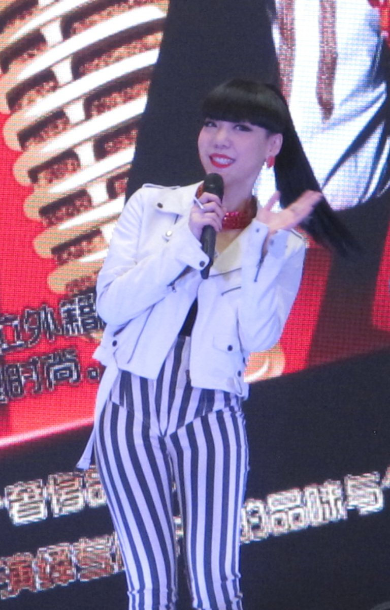 Momo Wu performing at Chungking, March 2013